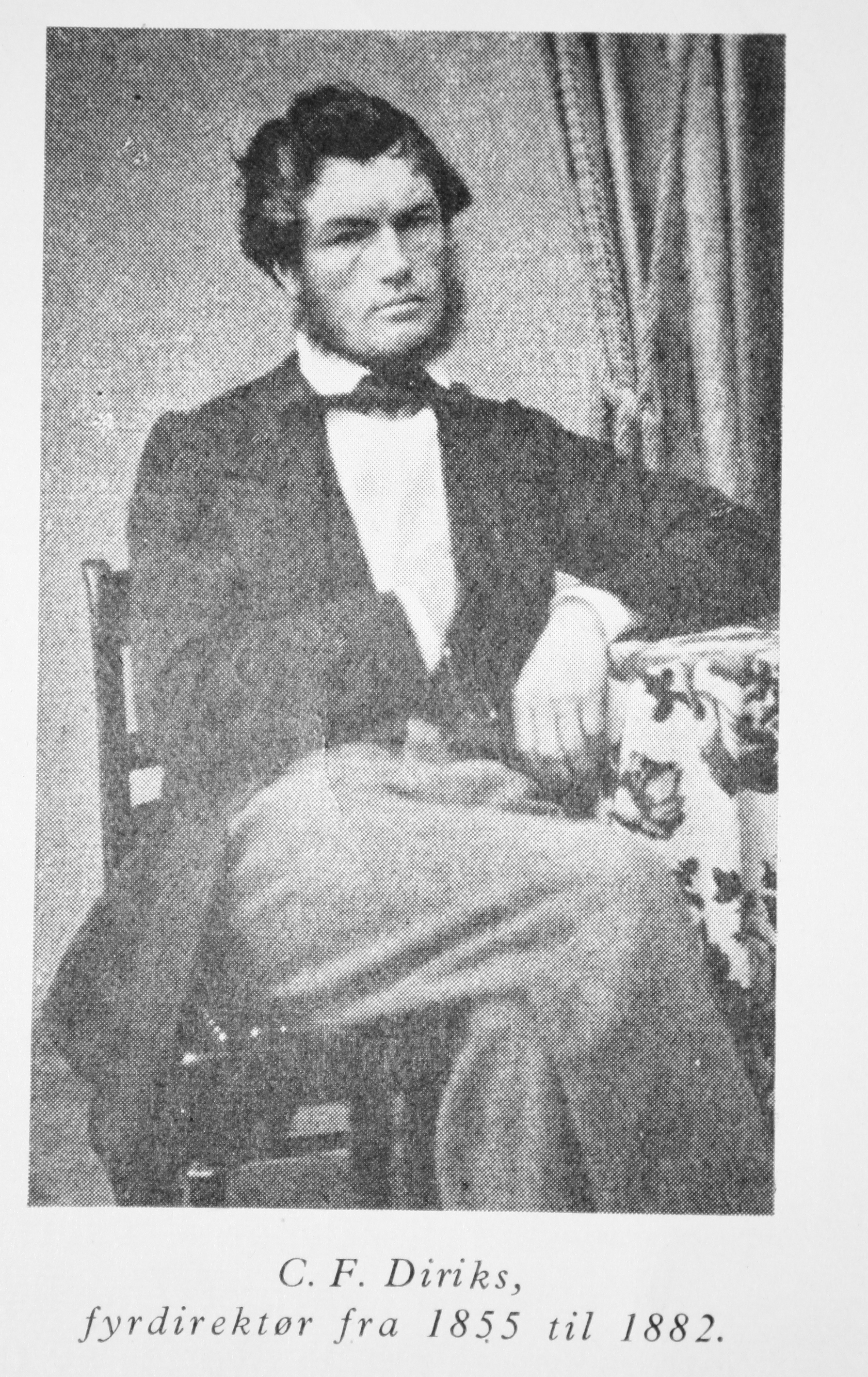 Carl Fredrik Diriks (born 1814 Larvik, died 1895). Norwegian illustrator and gorvenment official